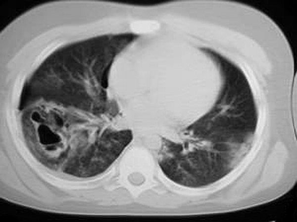 Caption from original article read, a chest CT "revealing multiple contusion areas and pneumothorax as well as two separate traumatic pulmonary pseudocyst."